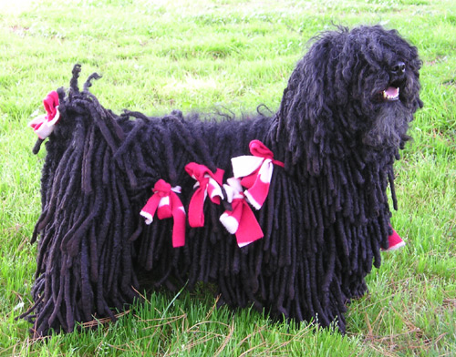 Puli (black) with cords tied up to keep them from collecting dirt and leaves CH Bokar Barney Rubble AX OAJ ("Barney") CH is a conformation show championship; AX and OAJ are dog agility titles Taken March,2004 at the Fast Forward Dog Training, San Jose, CA. Photo by Ellen Levy Finch (Elf).